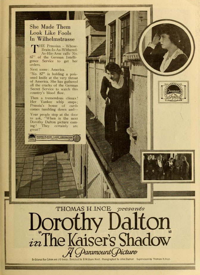 Advertisement in Moving Picture World, July 1918 for the American drama film The Kaiser's Shadow (1918) with Dorothy Dalton.